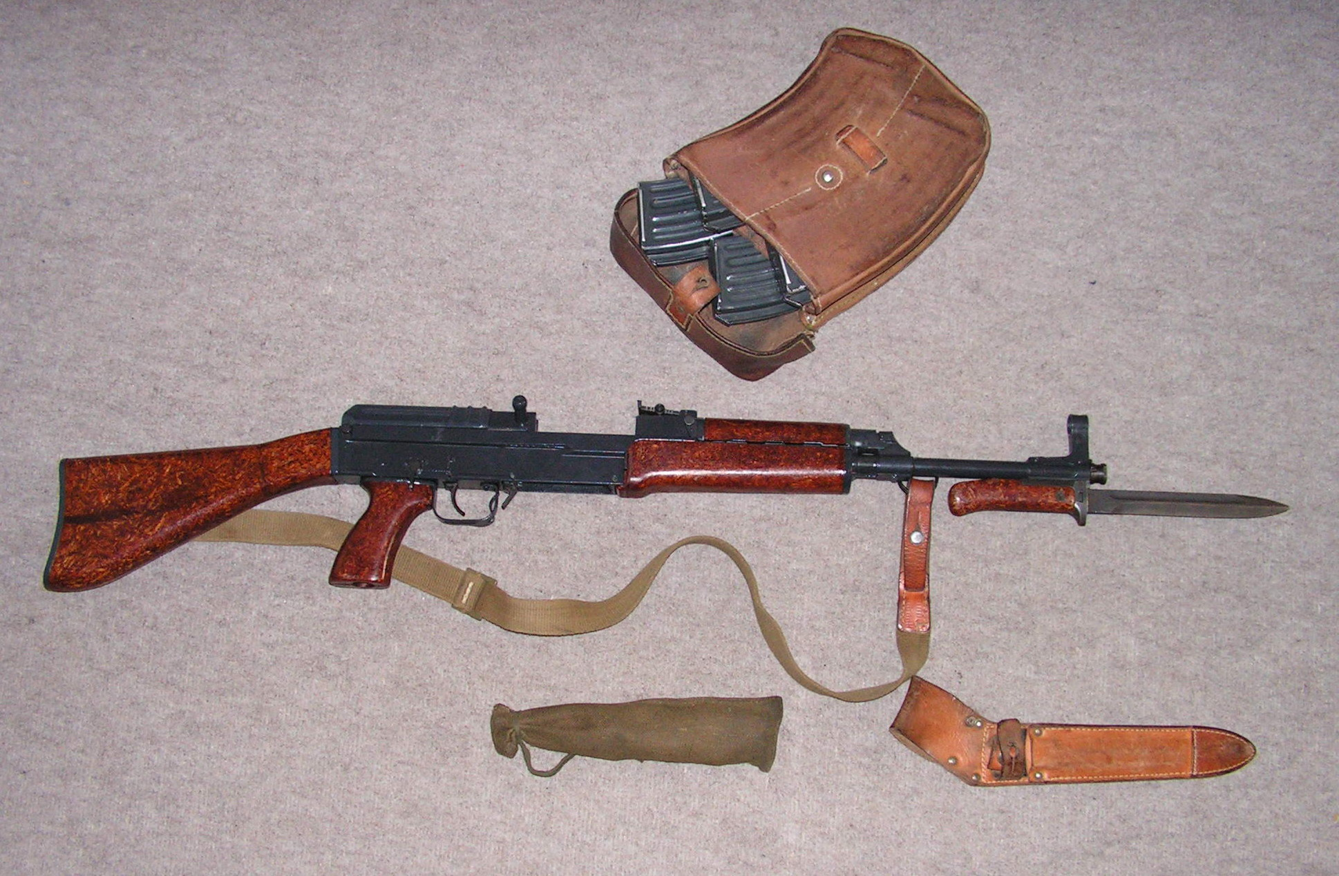 Czechoslovak assault rifle Sa vz. 58 P with original accessories